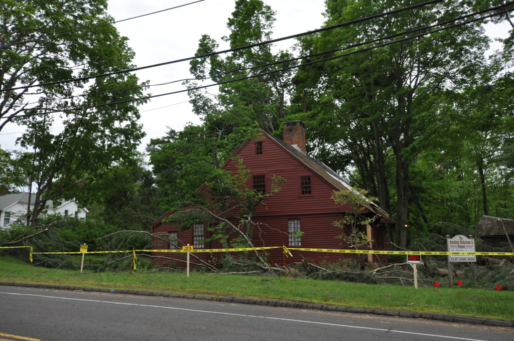 Jonathan Dickerman II House, Hamden, Connecticut. The house had recently suffered some storm damage (a large tree fell on it).